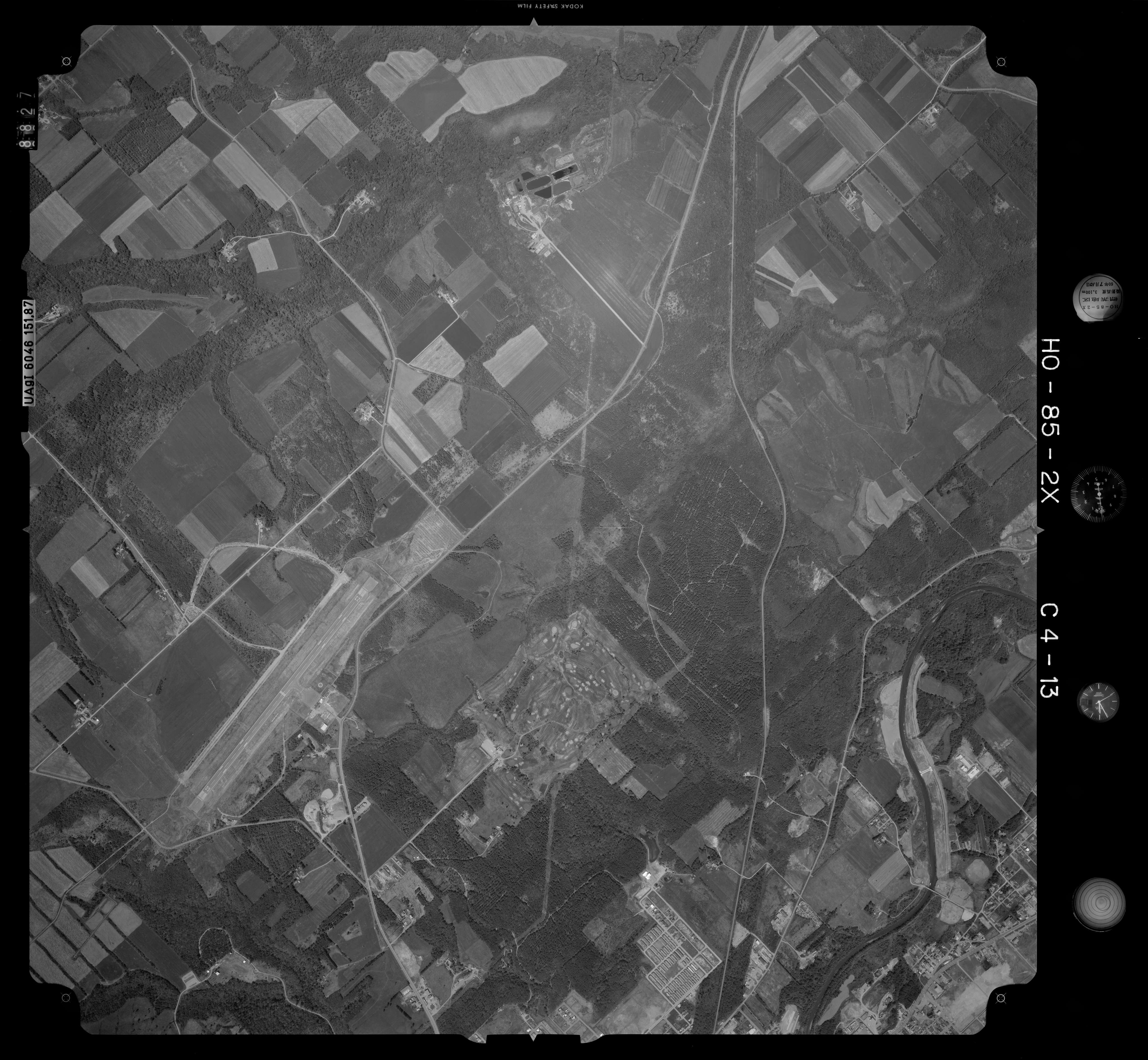 Photo by Geospatial Information Authority of Japan. Nakashibetsu Airport Runway(north), Hokkaido, Japan.